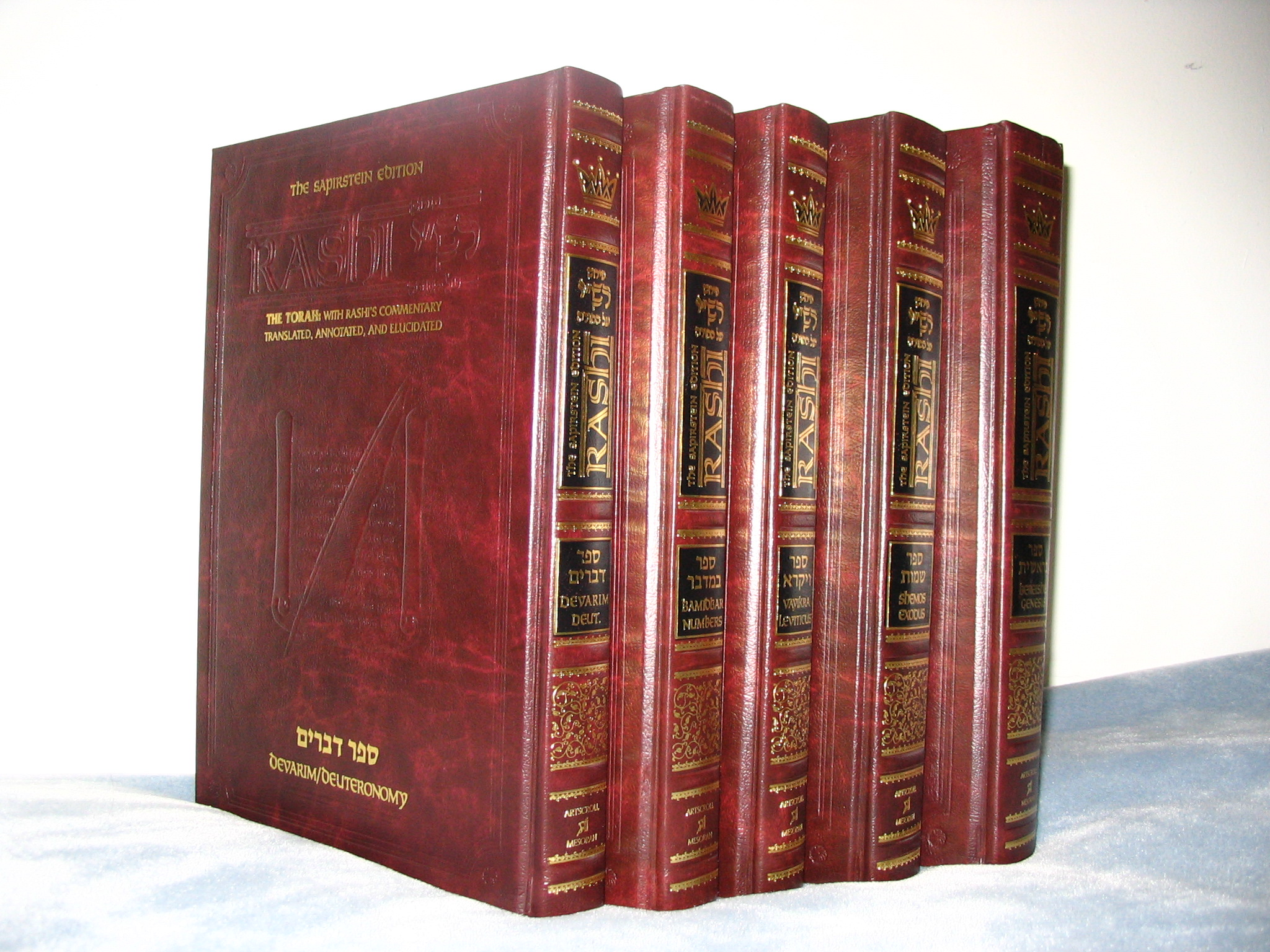 This is the five volume The Sapirstein Edition Rashi Artscroll Chumash.